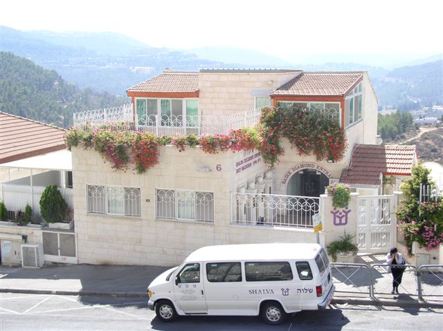 SHALVA Center in Jerusalem, Har Nof neighborhood, 6 Even Danan street